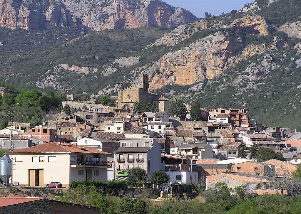 Vilanova de Meià (Noguera) - Catalunya